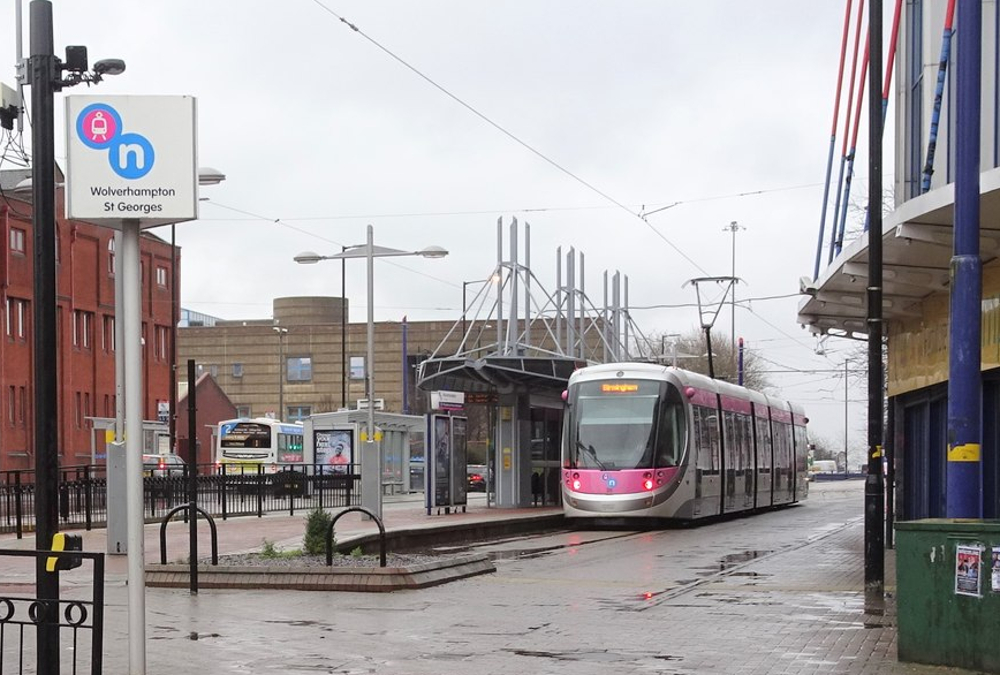 Wolverhampton St. George's tram stop, West Midlands Opened in 1999 as the terminus of the tram line from Birmingham. View east on a wet day.